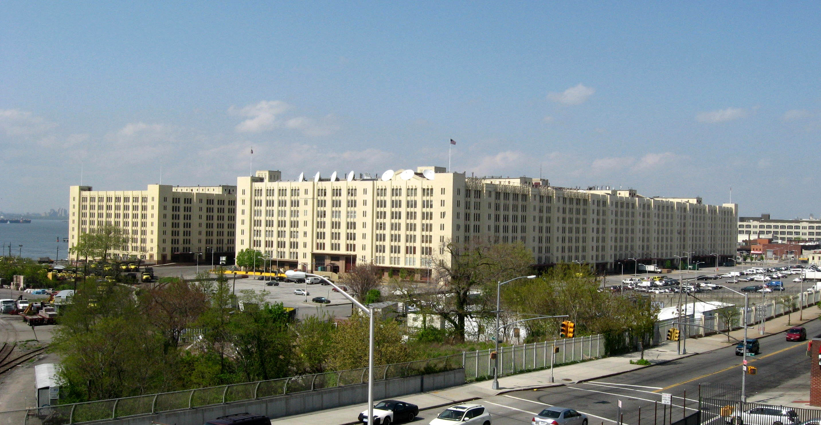 Brooklyn_Army_Terminal BAT and Bush Terminal in background. Looking north across Second Avenue on a sunny early afternoon in springtime from a downramp of Gowanus Expressway towards Shore Parkway.